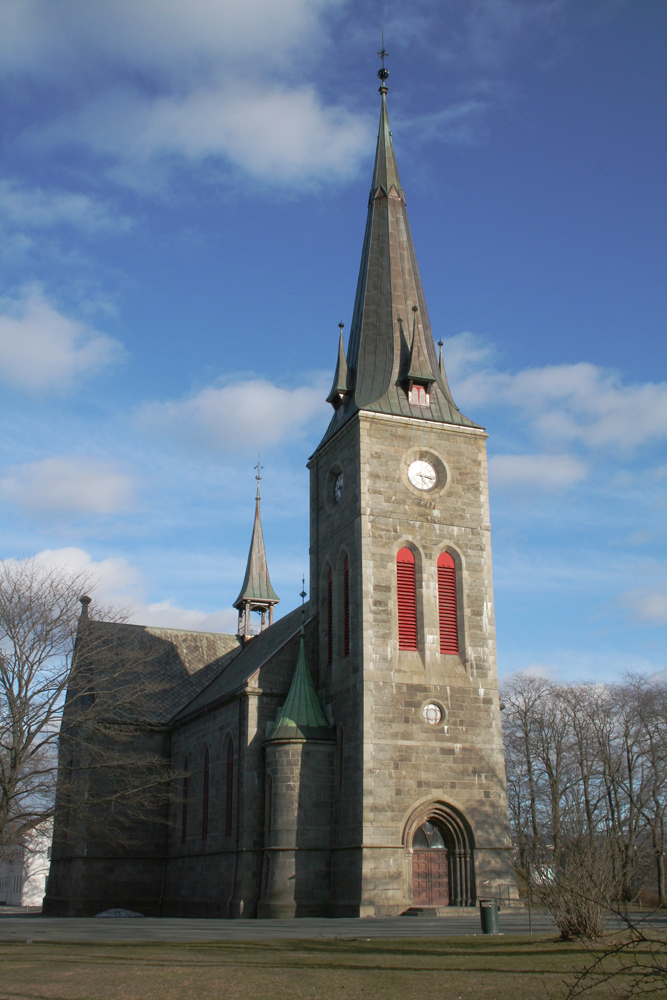 Ila church in Trondheim, Norway